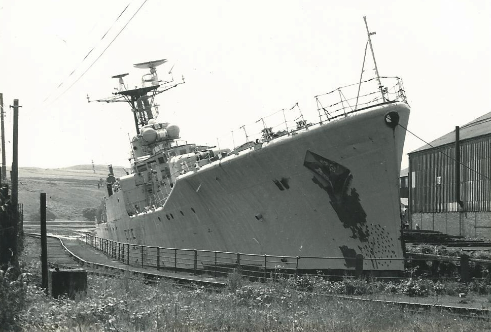 "Whitby" Class Type 12 Anti Submarine Frigate "HMS Tenby", 2,150 tons, launched 1955, completed 1957, at Ward's Scrapyard, "Giant's Grave, Briton Ferry, 1979# Scanned photograph taken with a Kowa SET#